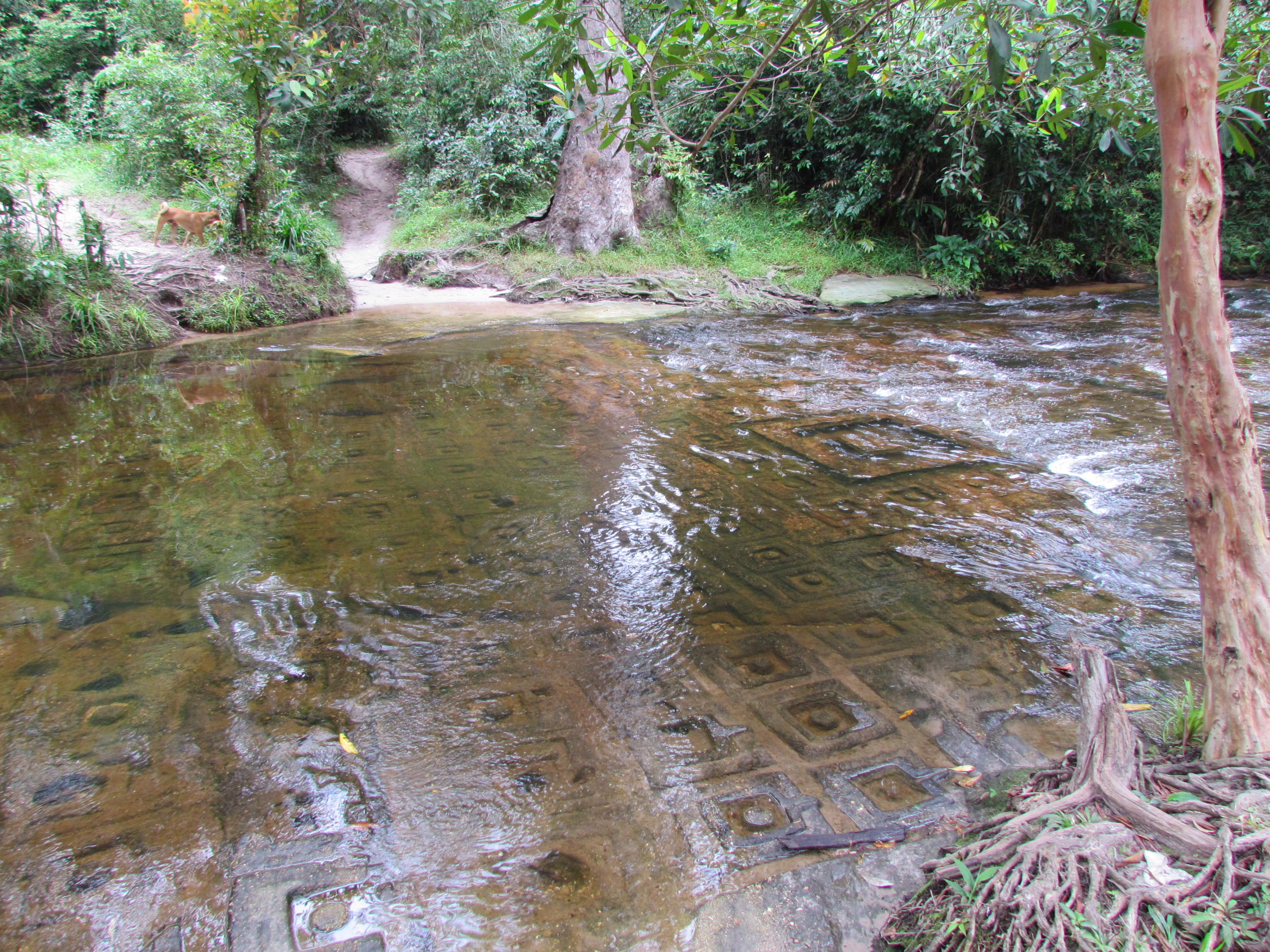 Linga 1,000 at Phnom Kulen National Park